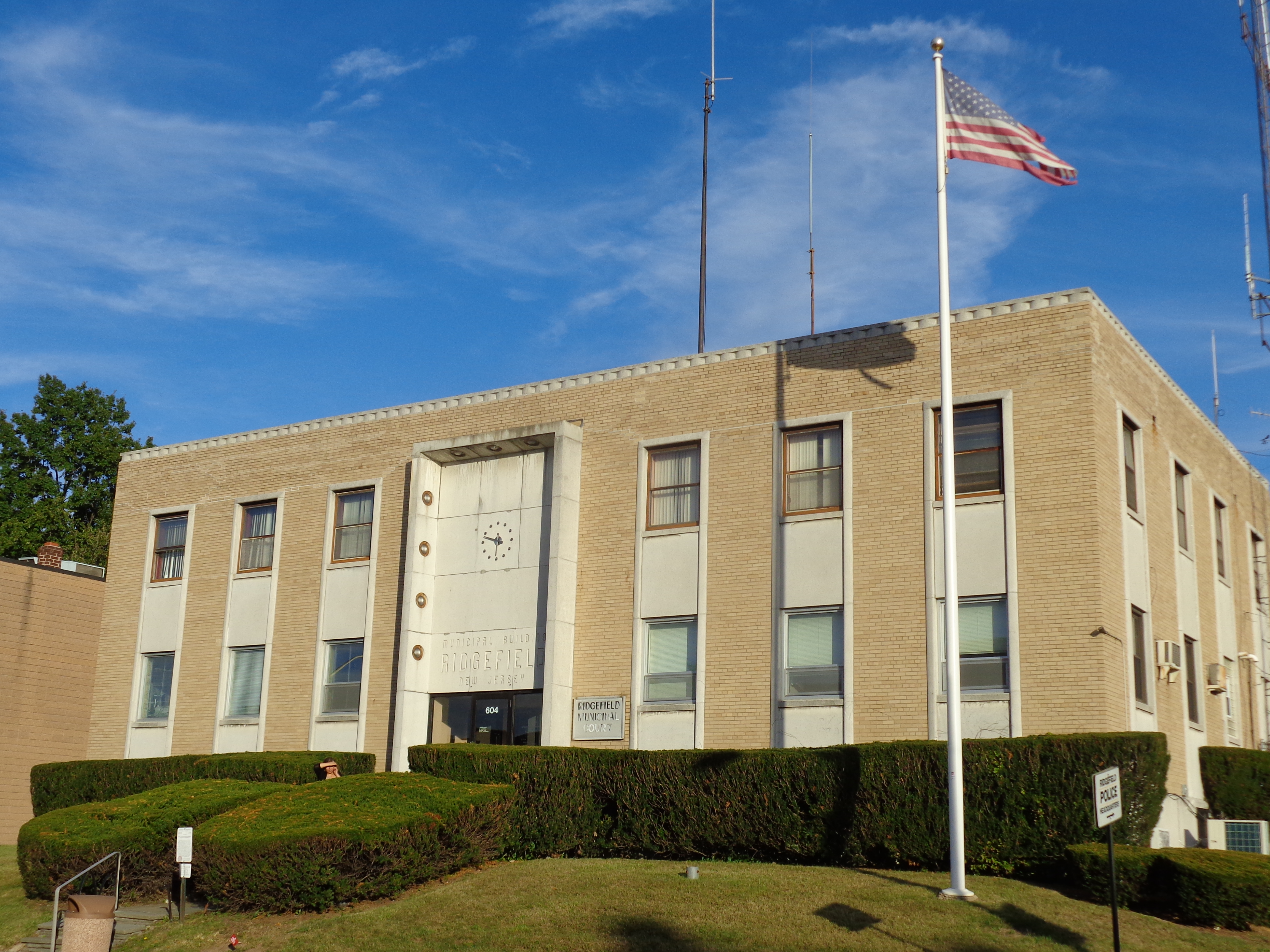 Borough Hall Ridgefield NJ